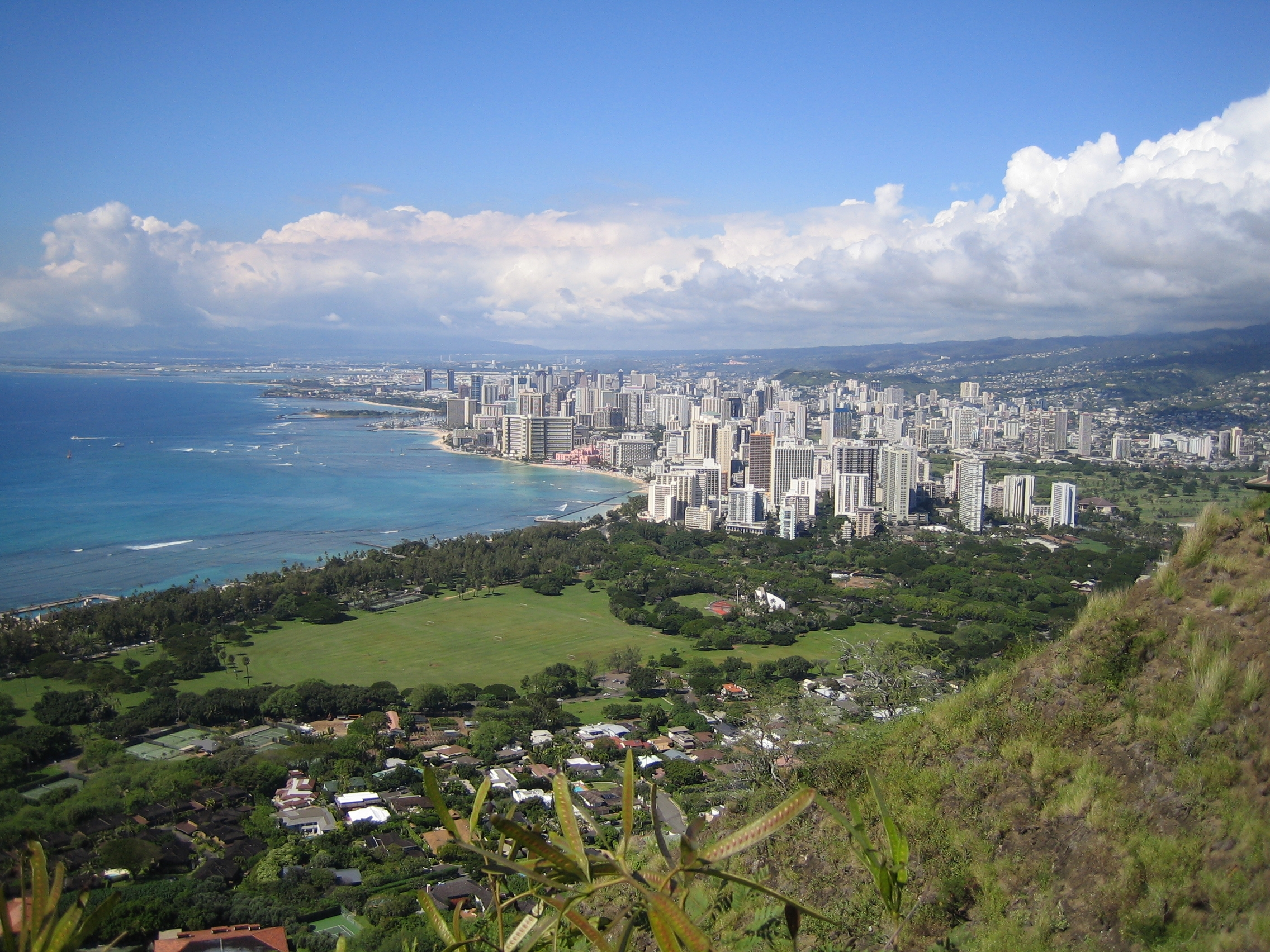 Honolulu and Waikiki from top of Diamond Head.